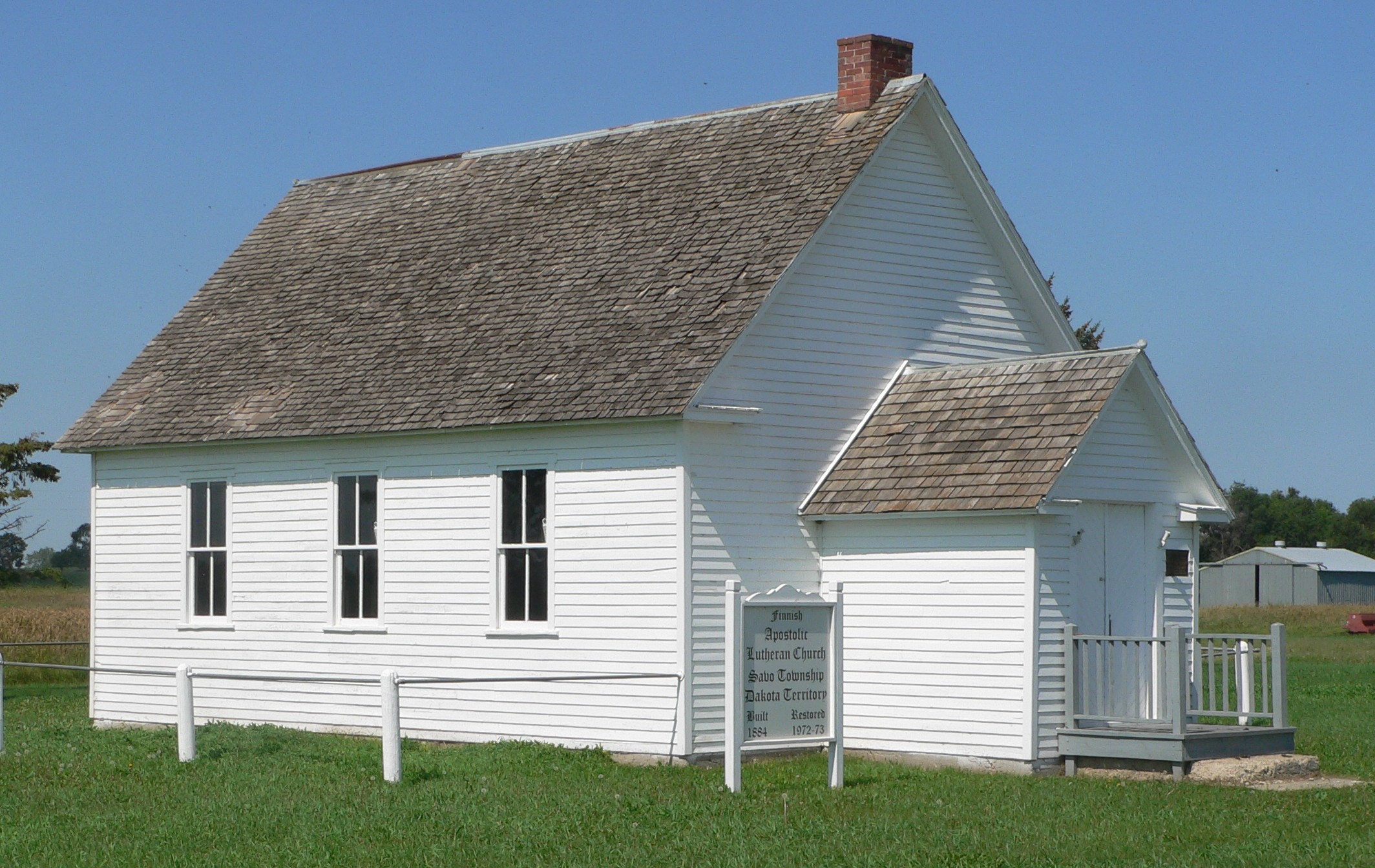 Finnish Apostolic Lutheran Church, located at the northwest corner of county roads 101 St and 392 Ave in rural Savo Township, Brown County, South Dakota; seen from the southeast.